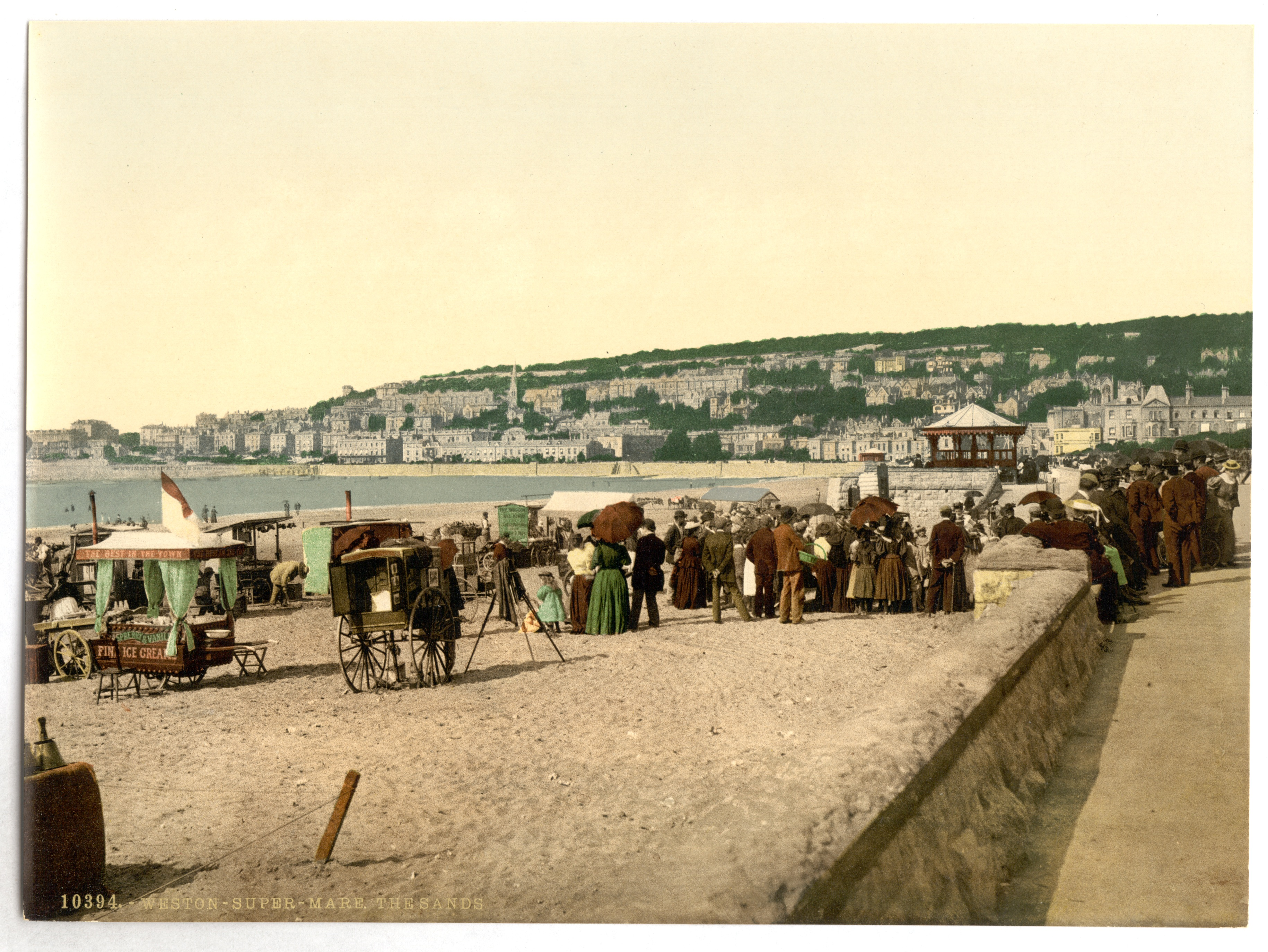 Print no. "10394".; Title from the Detroit Publishing Co., Catalogue J-foreign section, Detroit, Mich. : Detroit Publishing Company, 1905.; Forms part of: Views of England in the Photochrom print collection.